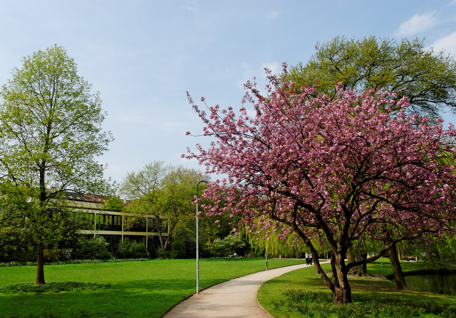 Meadow in the Flora Park in Duesseldorf-Unterbilk, Germany